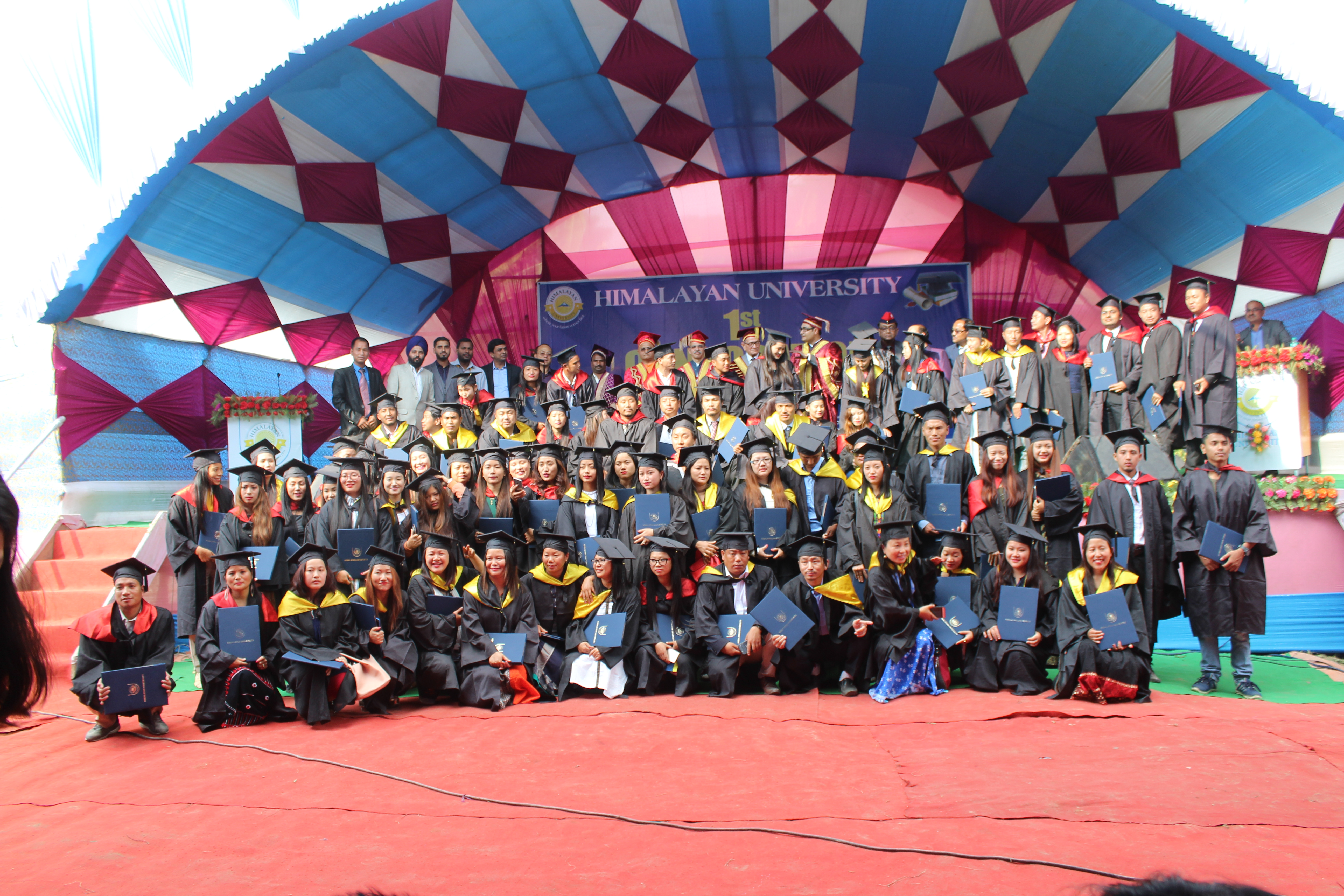 Himalayan University conduct its 1st Convocation on 22-Dec-2017 in Jallong Campus, Itanagar